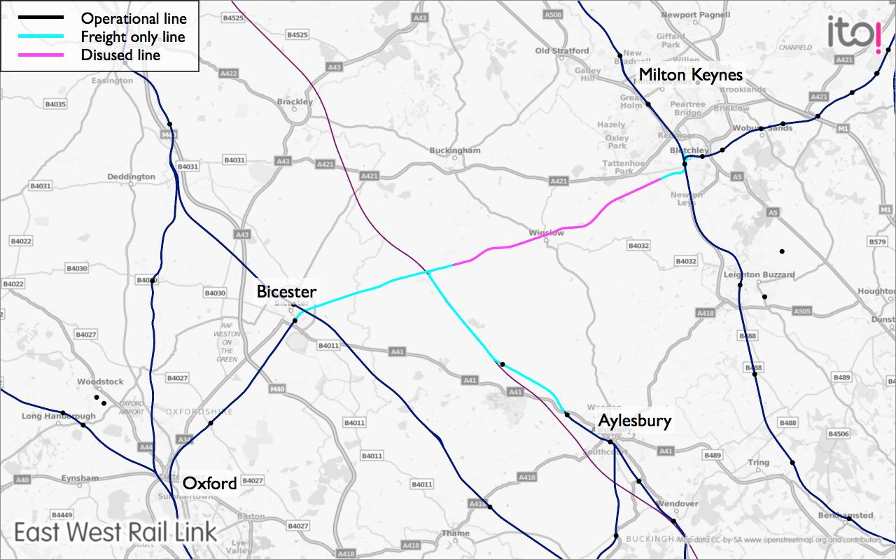 The Western part of the proposed new East West Rail route